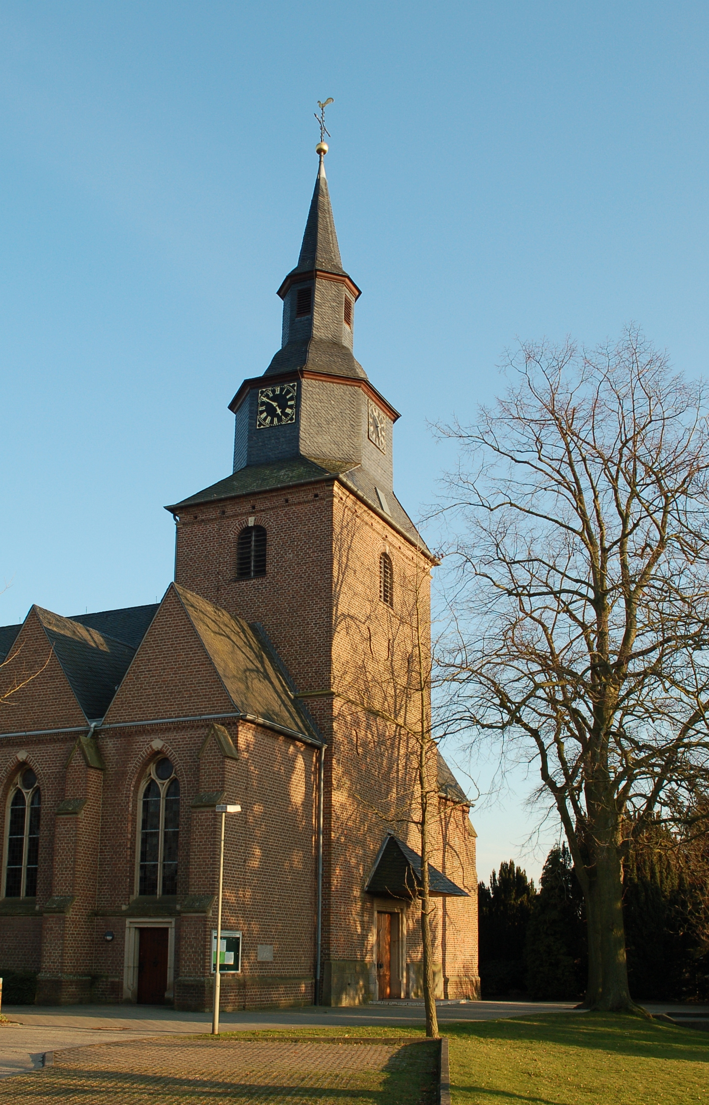 The roman-catholic church in Hückelhoven-Ratheim